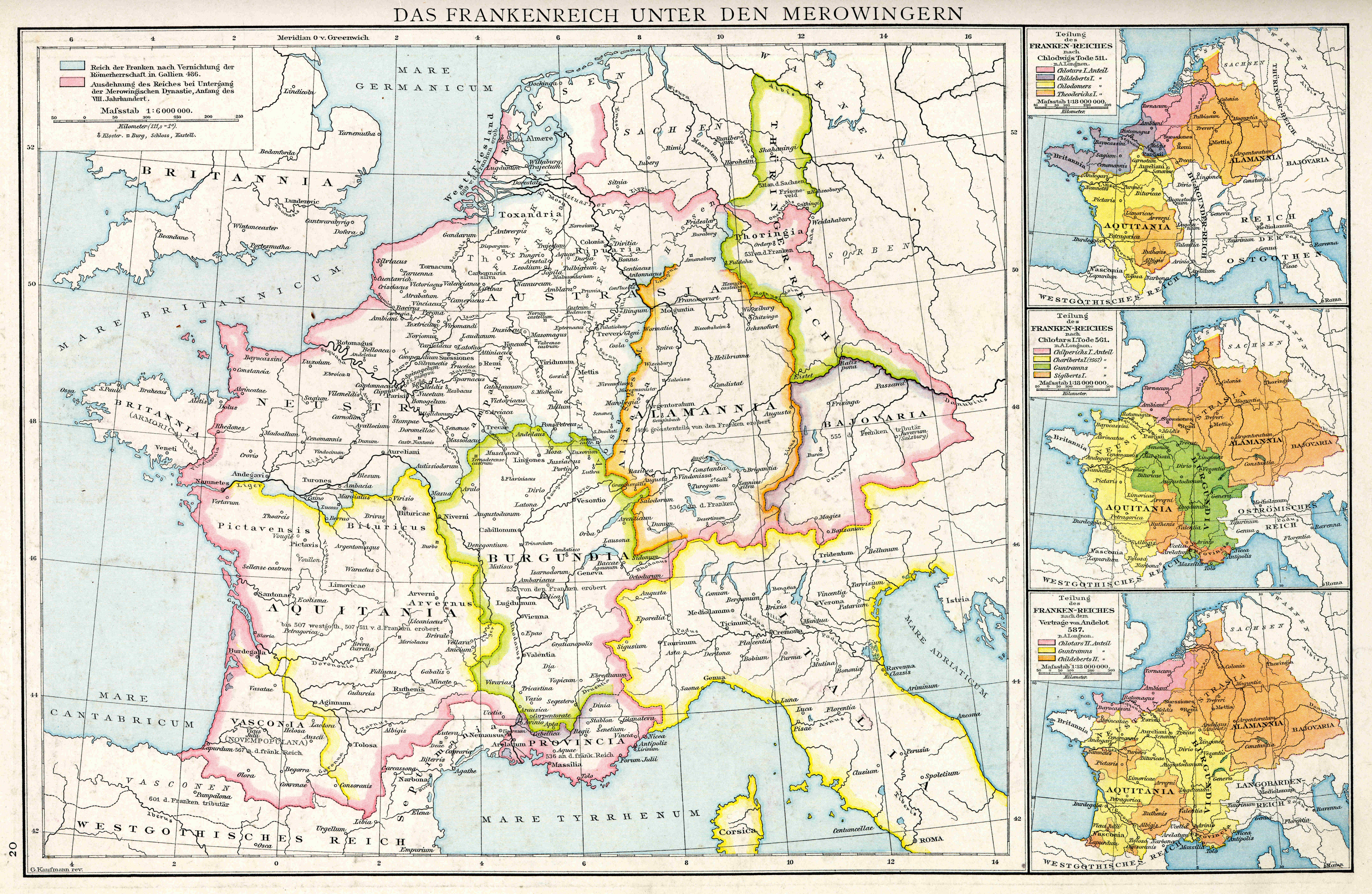 Plate 20 of Professor G. Droysens Allgemeiner Historischer Handatlas, published by R. Andrée.